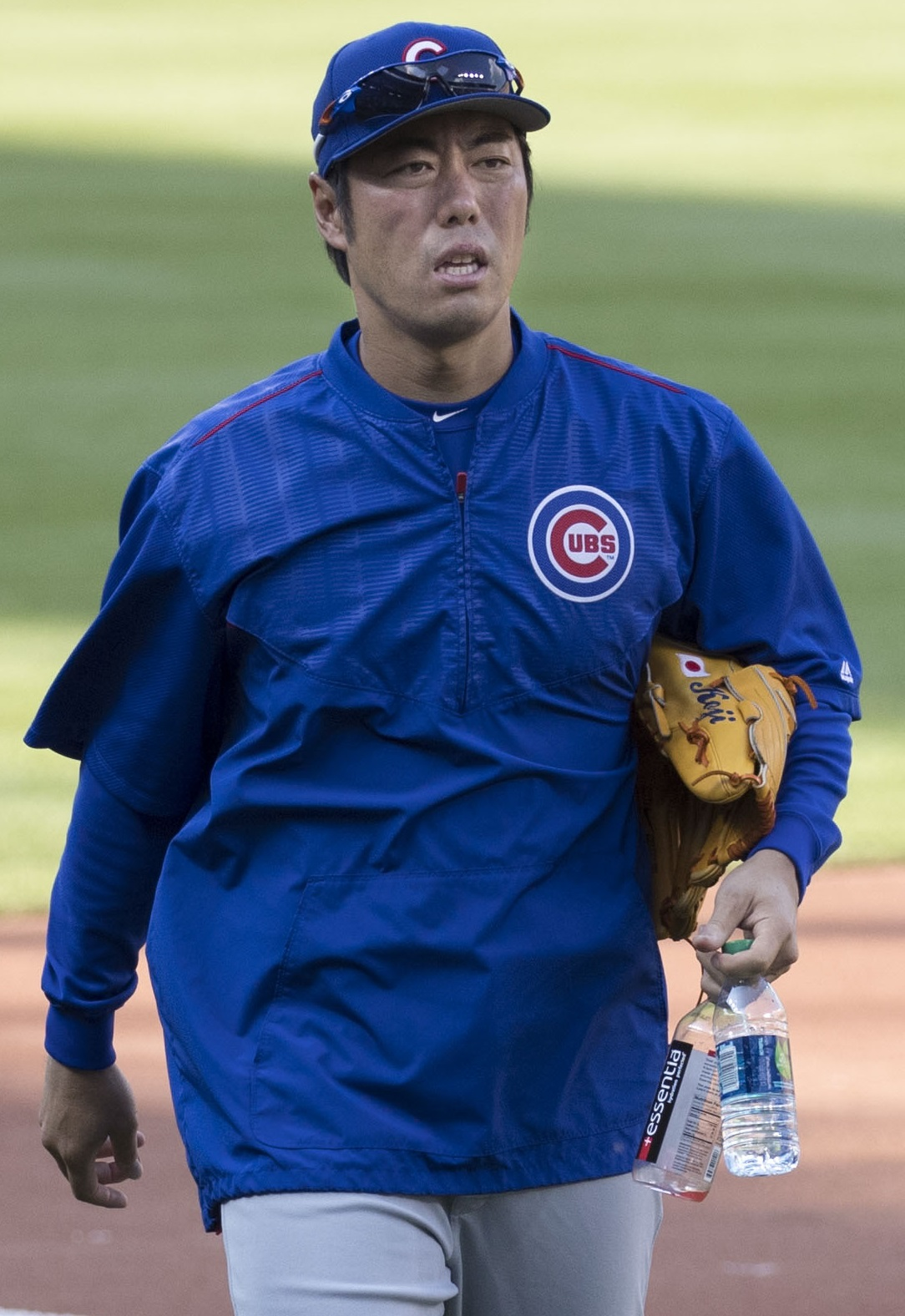 Cubs at Orioles 7/15/17